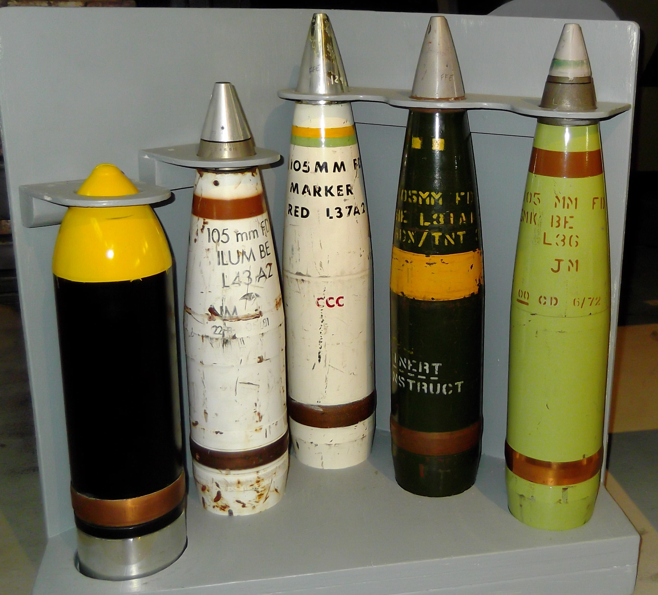 Royal Artillery Museum Woolwich London 199